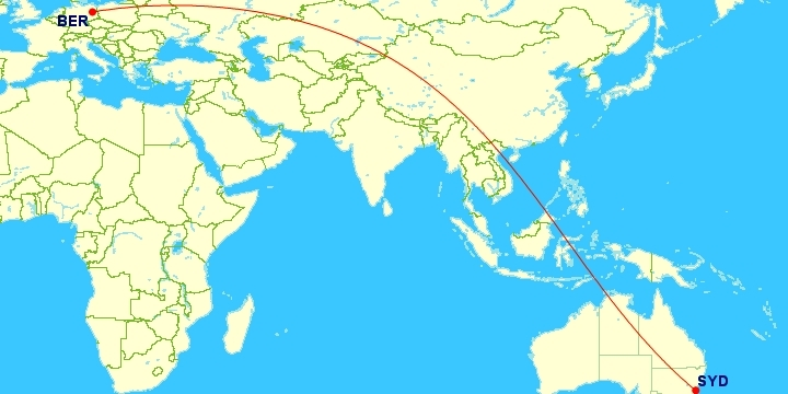 great circle map Berlin-Sydney